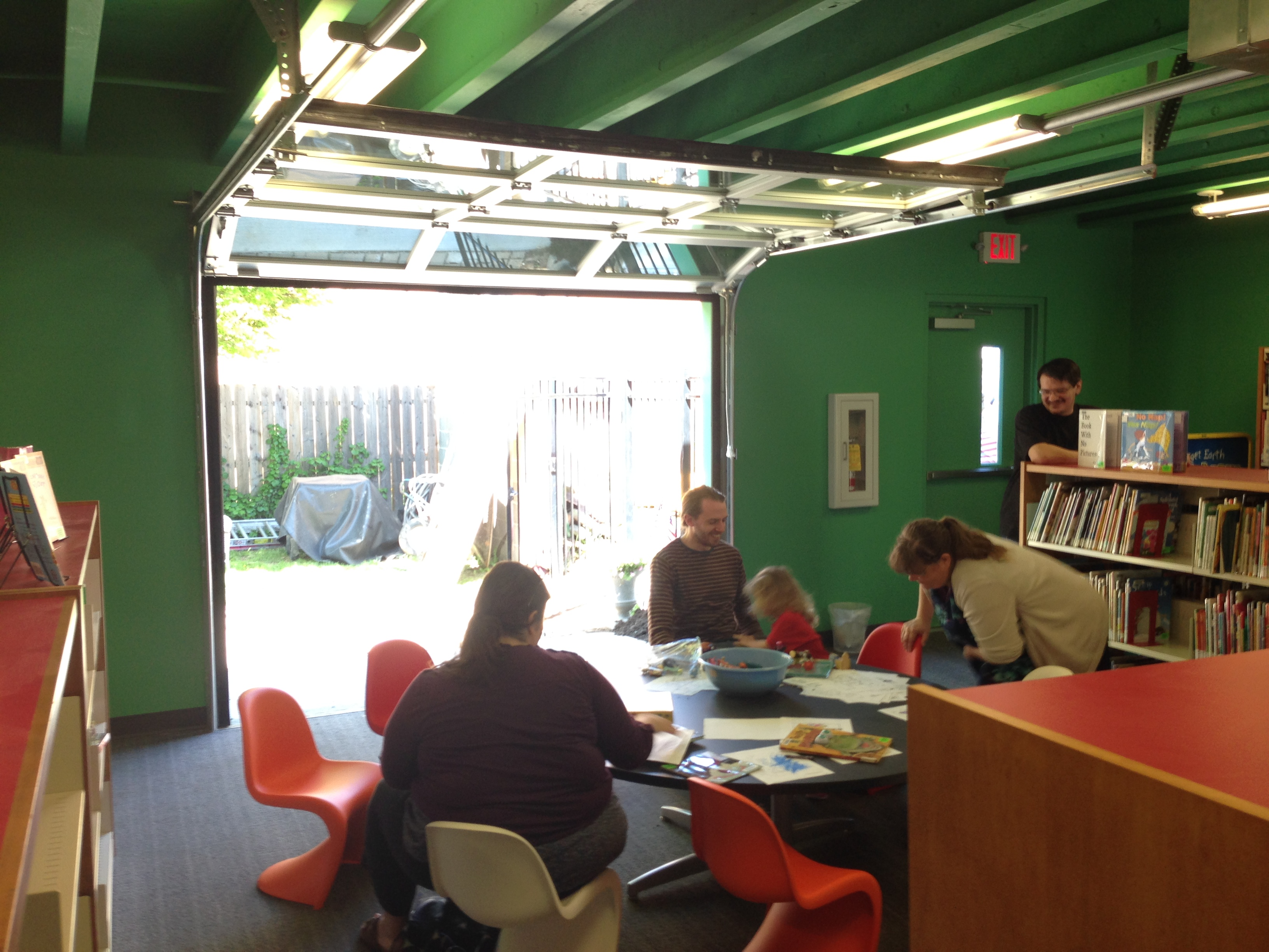 Sharpsburg Community Library.